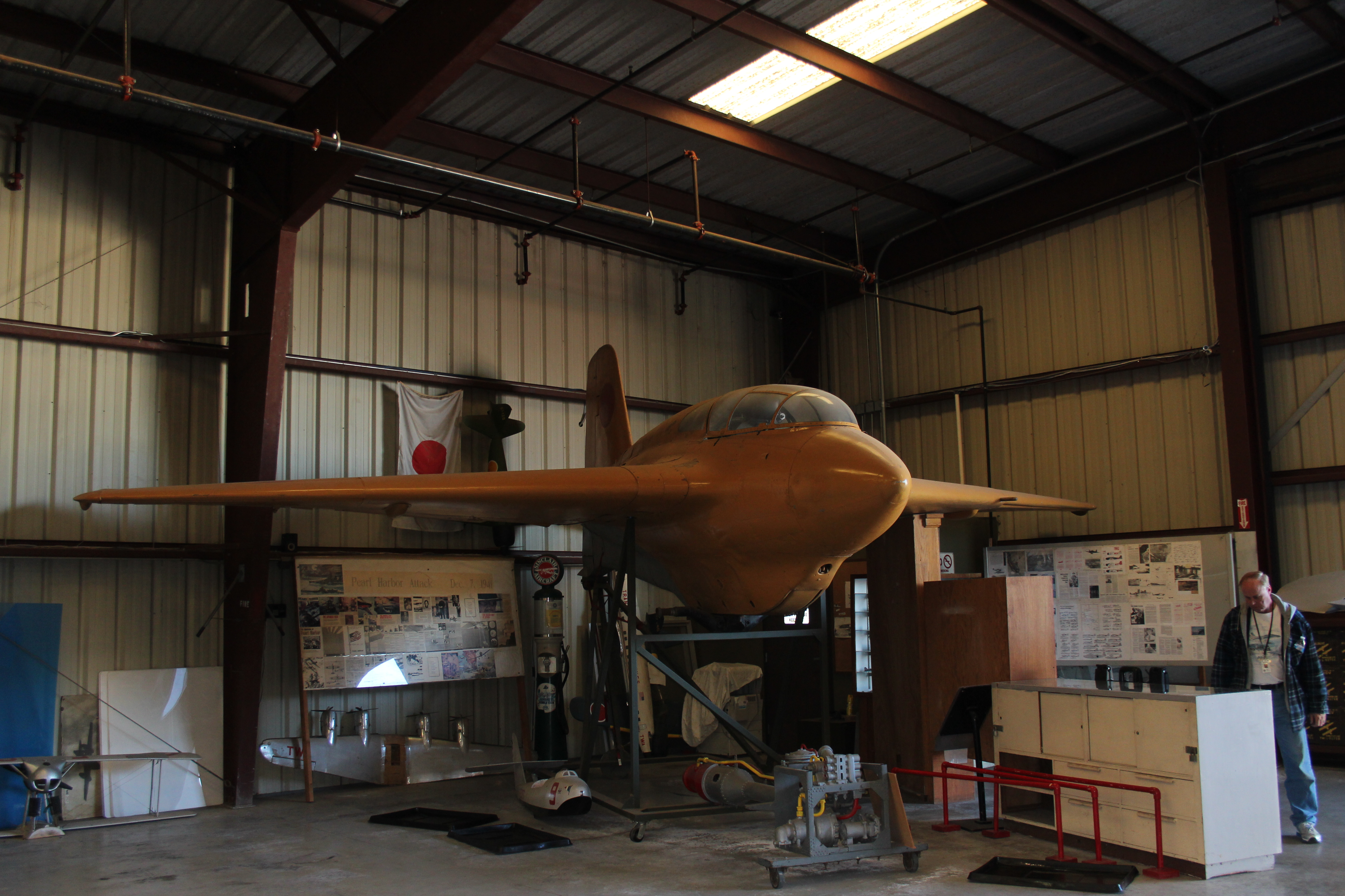 Mitsubishi J8M1 early rocket plane, World War II